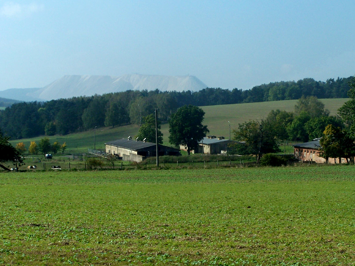 The buildings of a agricultural enterprise in Abteroda. Behind the Monte Kali at Heringen.